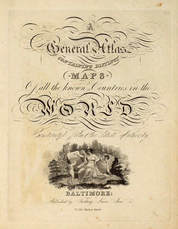 Title page for General Atlas of the World